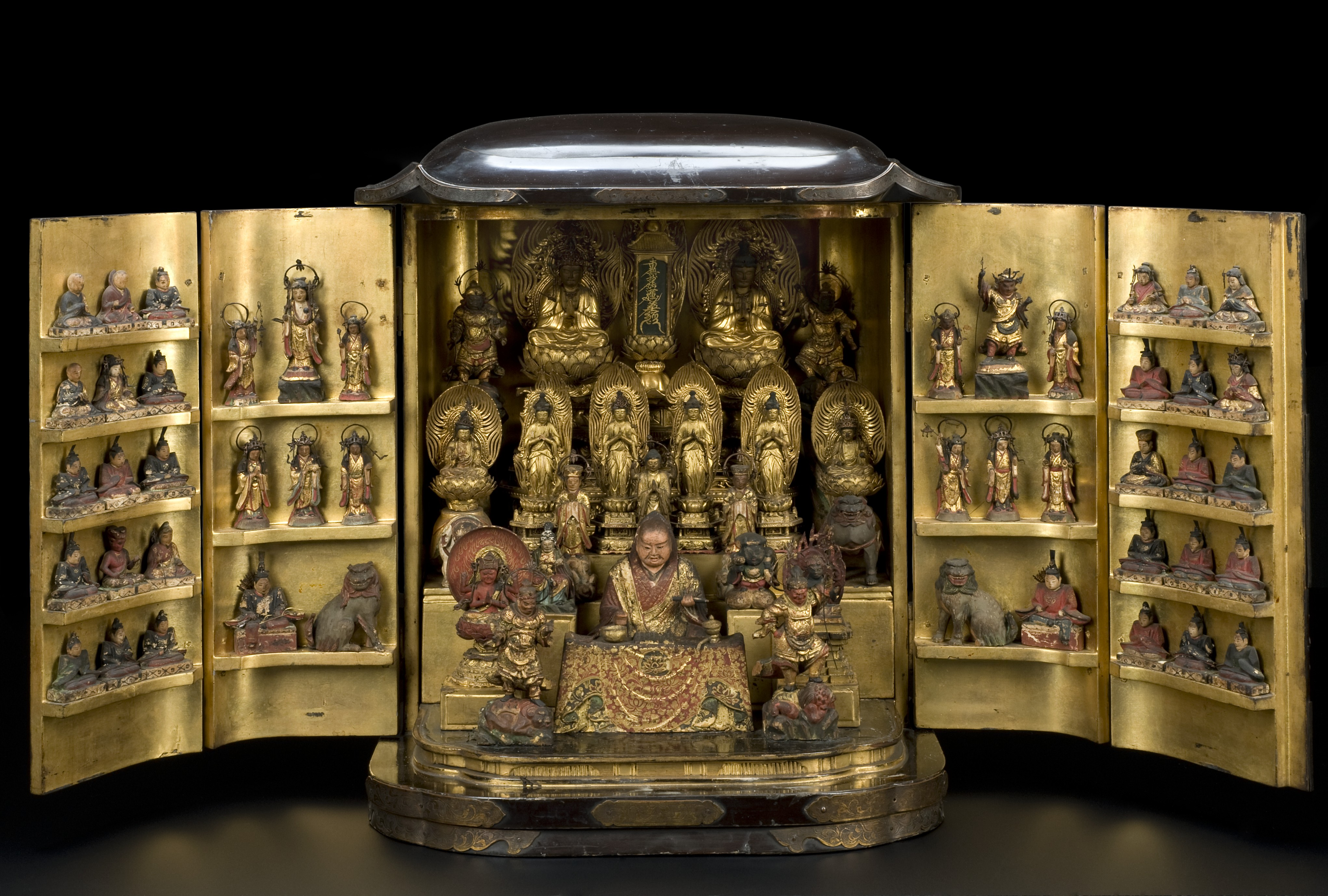 Lacquered wooden domestic shrine with 66 figures of Shinto and Buddhist deities, Japanese, 19th century. Full view, doors open. Black background. Wellcome Images